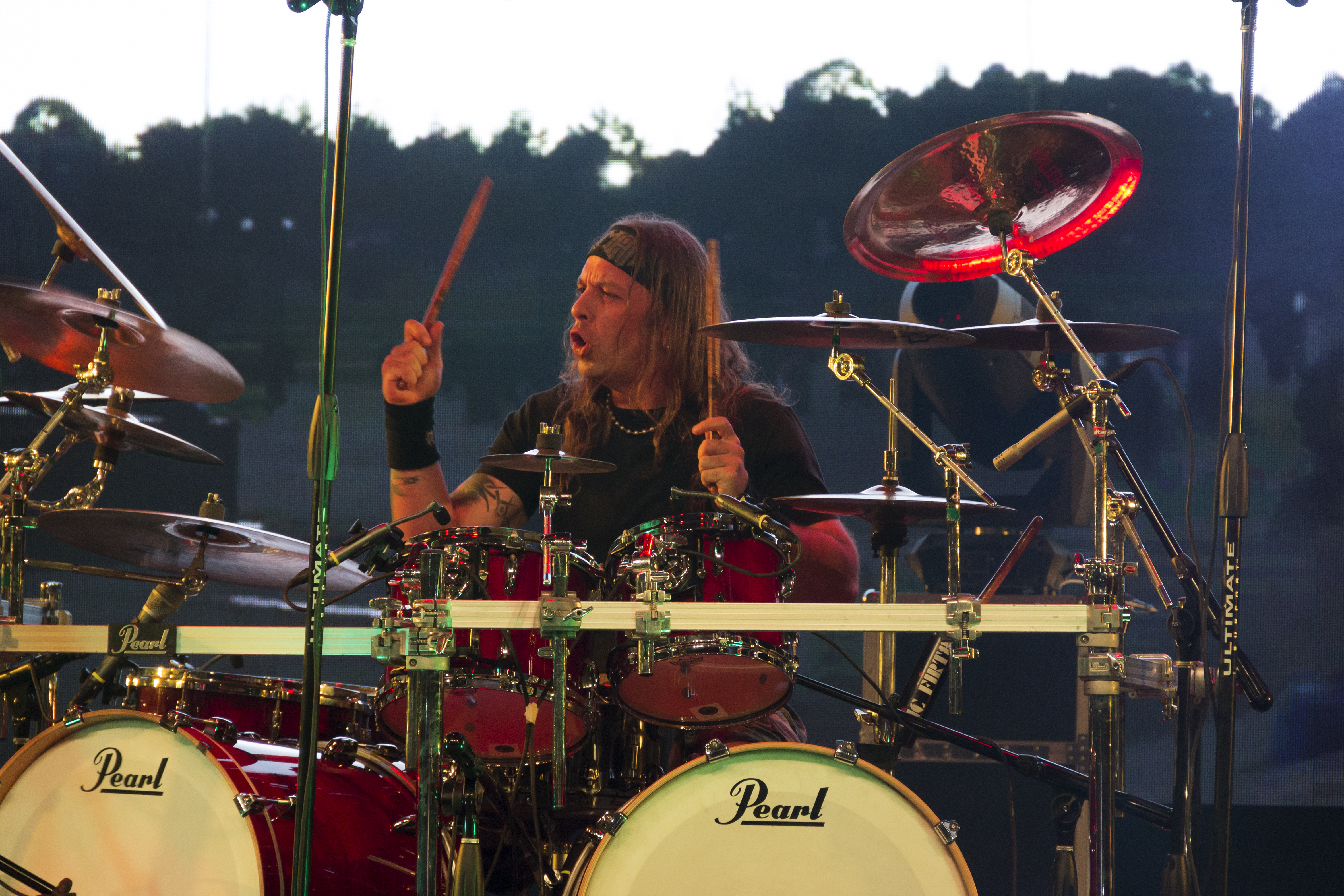 Vicente Arcuri with venezuelan heavy metal band Gillman in GillmanFest Aragua 2017 de Leyendas at Teatro de la Opera of Maracay, 2017-03-18